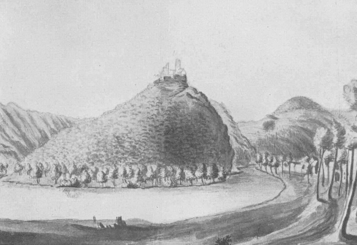 Saffenburg, old drawing